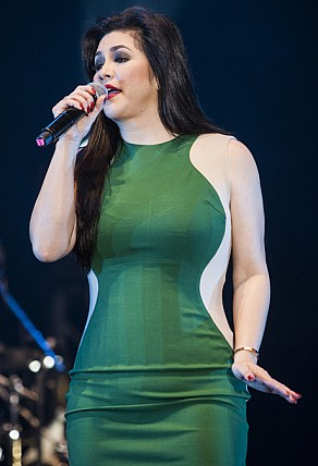 Regine Velasquez performing in Dubai (2014)